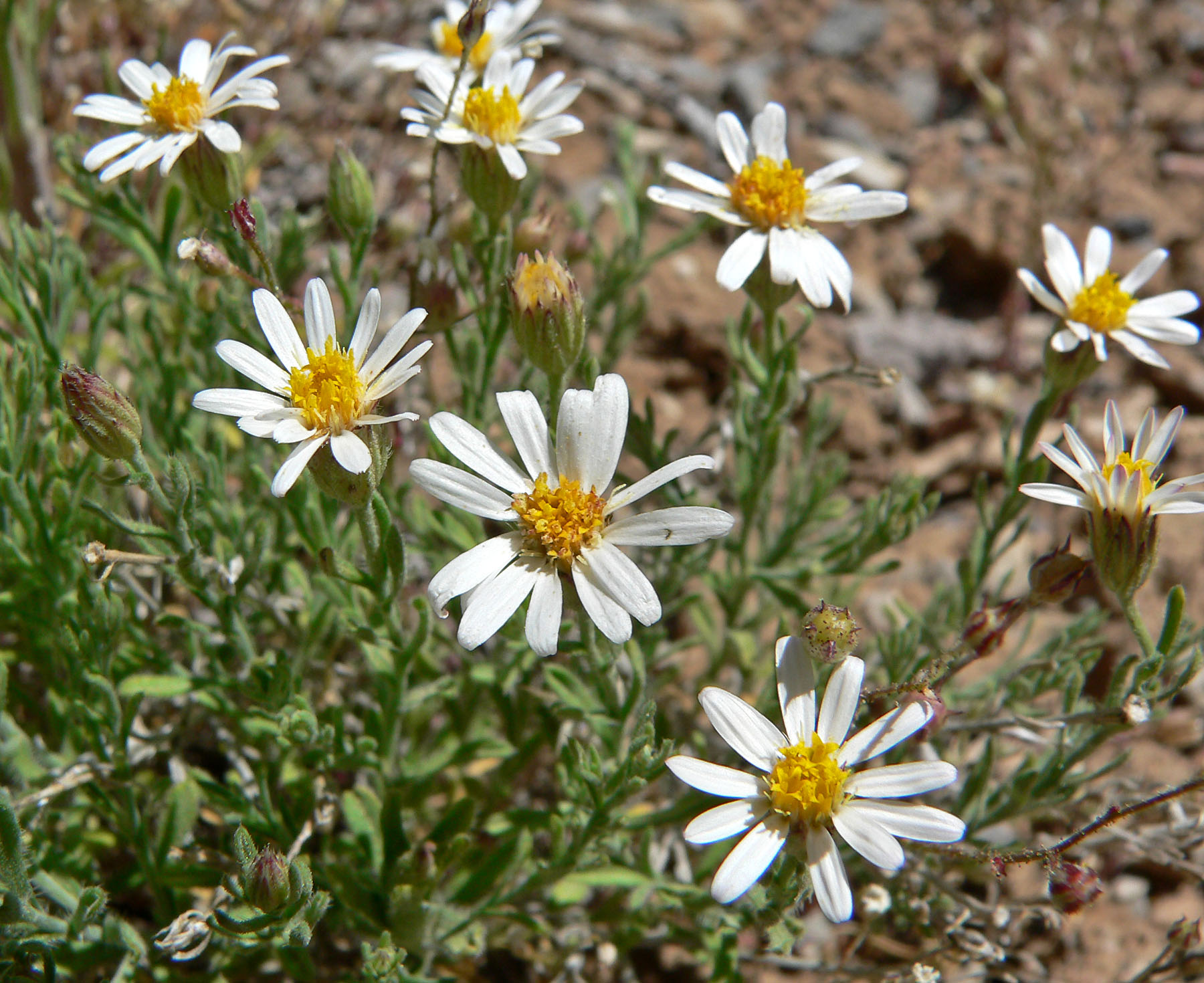 Chaetopappa ericoides in Kyle Canyon, Spring Mountains, west of Las Vegas, Nevada